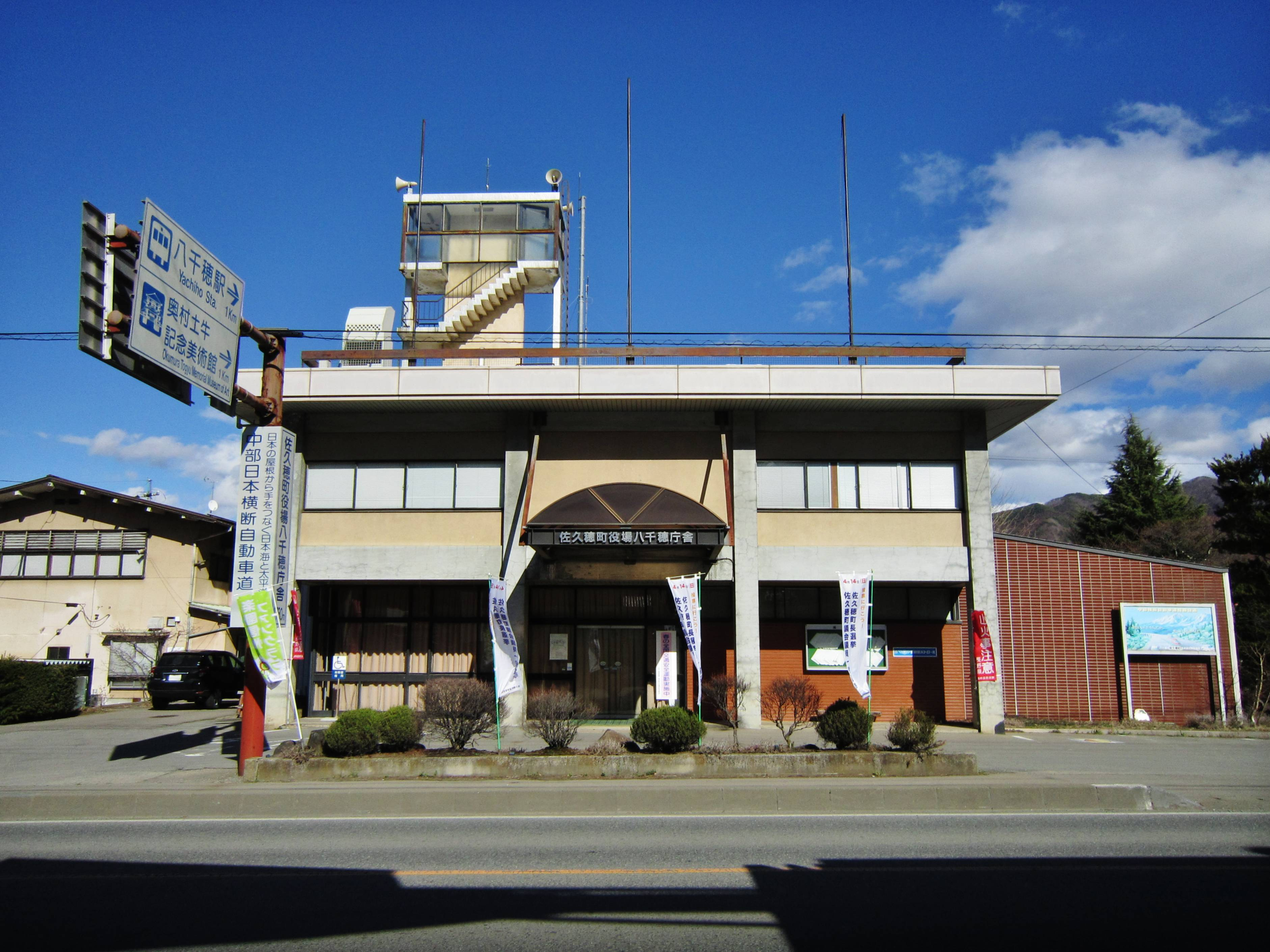 Sakuho town Yachiho branch office.